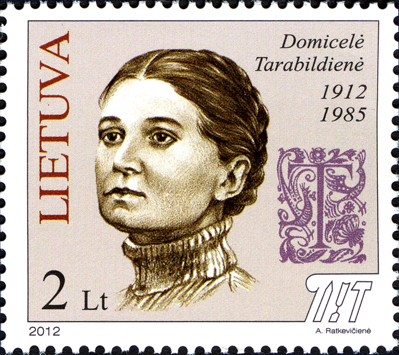 Famous People - Artist, book illustrator Domicele Tarabildiene